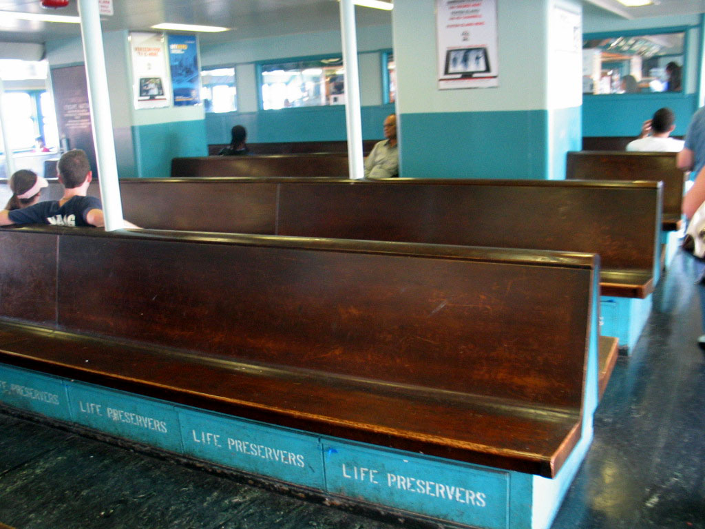 The seating space of the John F. Kennedy class boat of the Staten Island Ferry